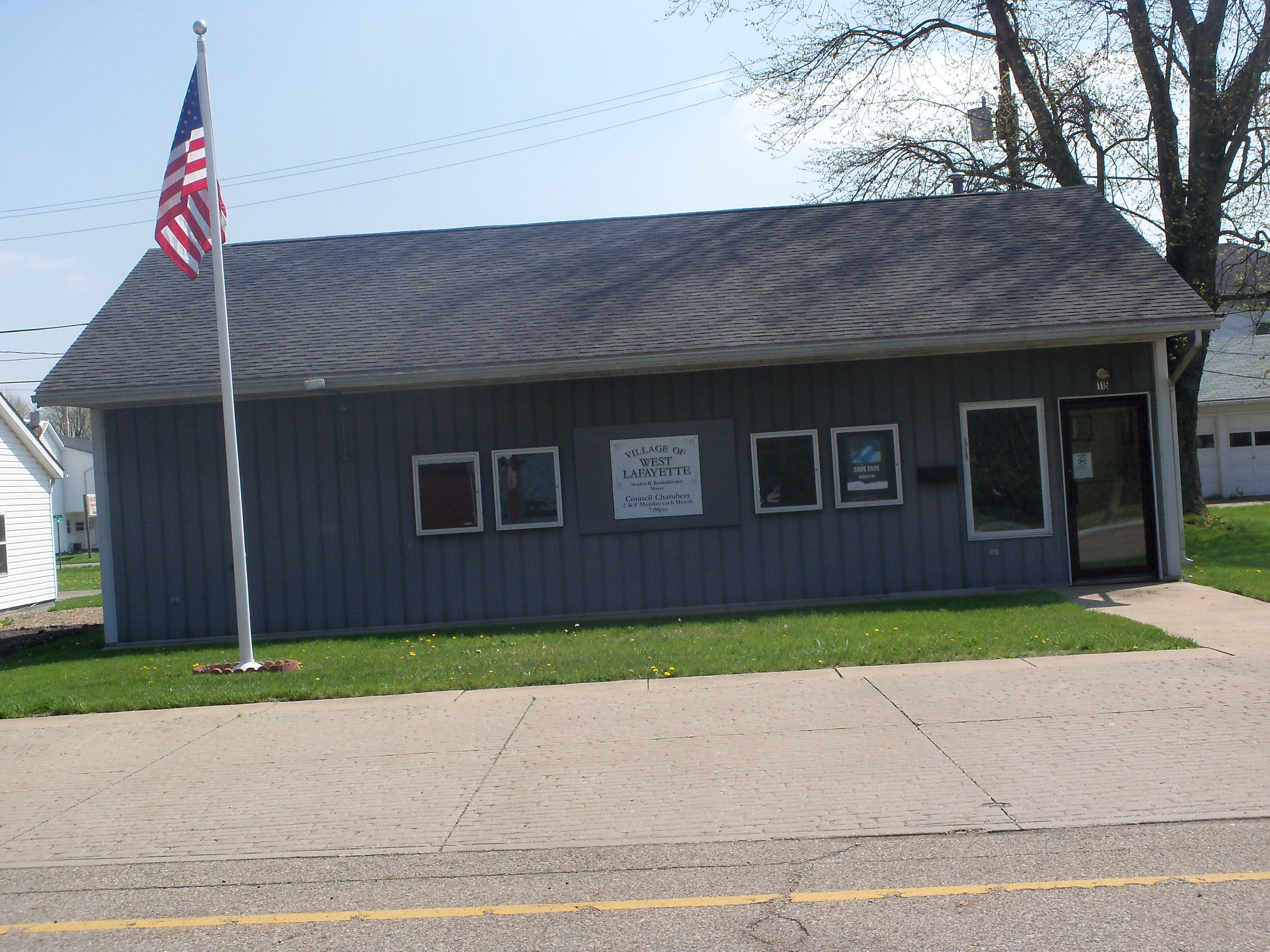 West Lafayette, Ohio village hall